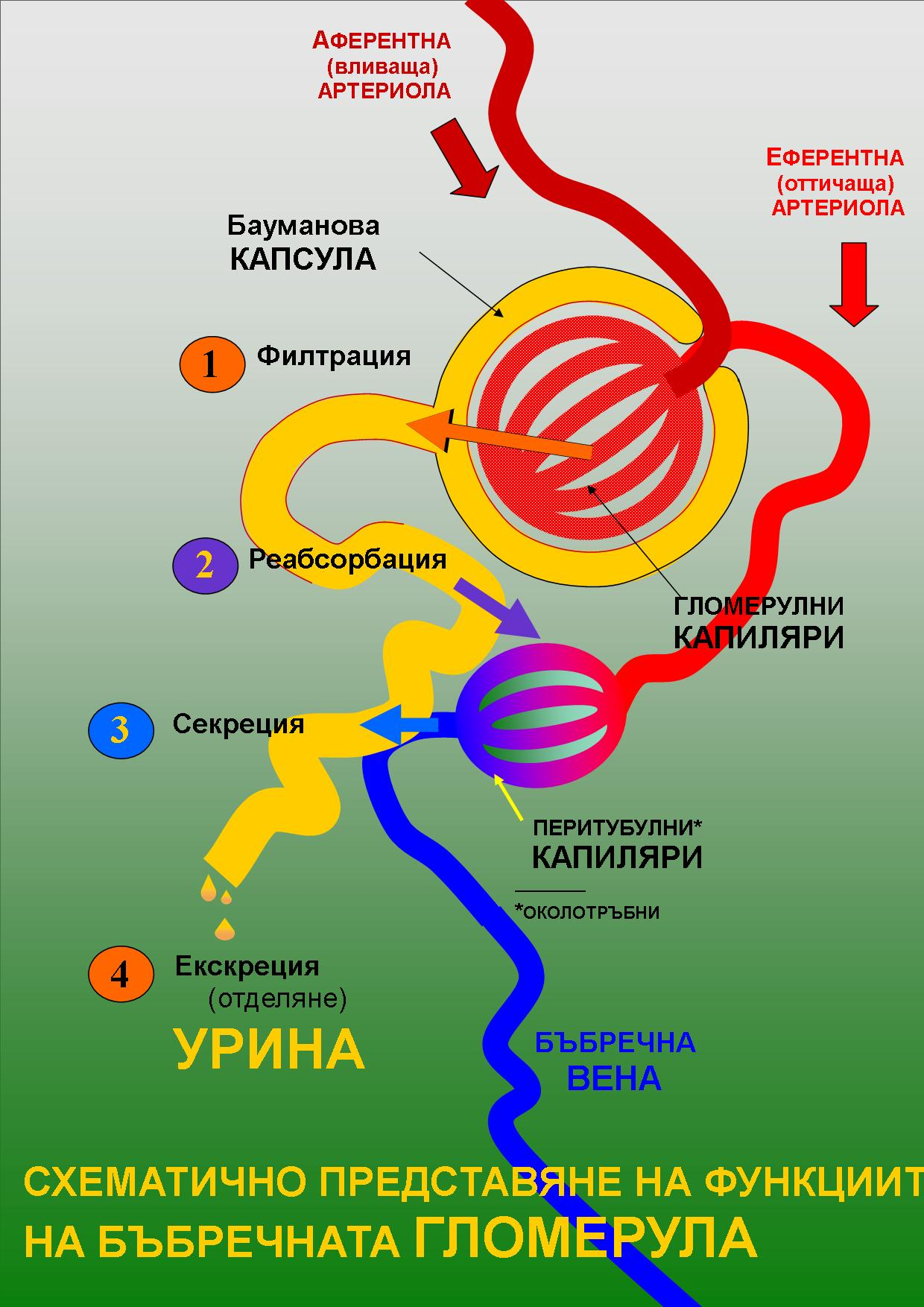 Glomerular function physiologic schematic with labels in Bulgarian